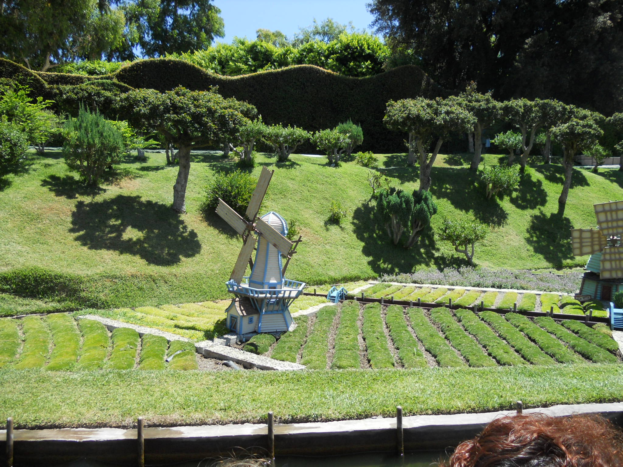 A small windmill, though by scale, it appears to be 30 feet tall (my estimate).